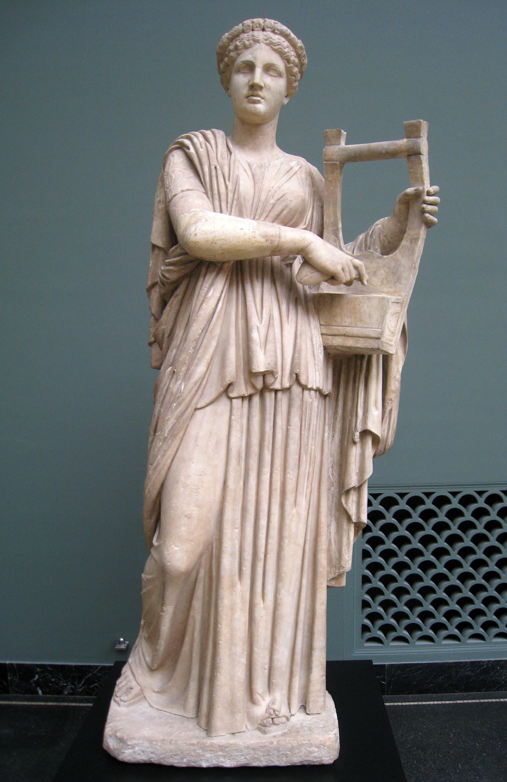 Marble statue of Erato from Monte Calvo in Italy. 2nd century AD. From the collection of the Ny Carlsberg Glyptotek. Item number IN 1566.